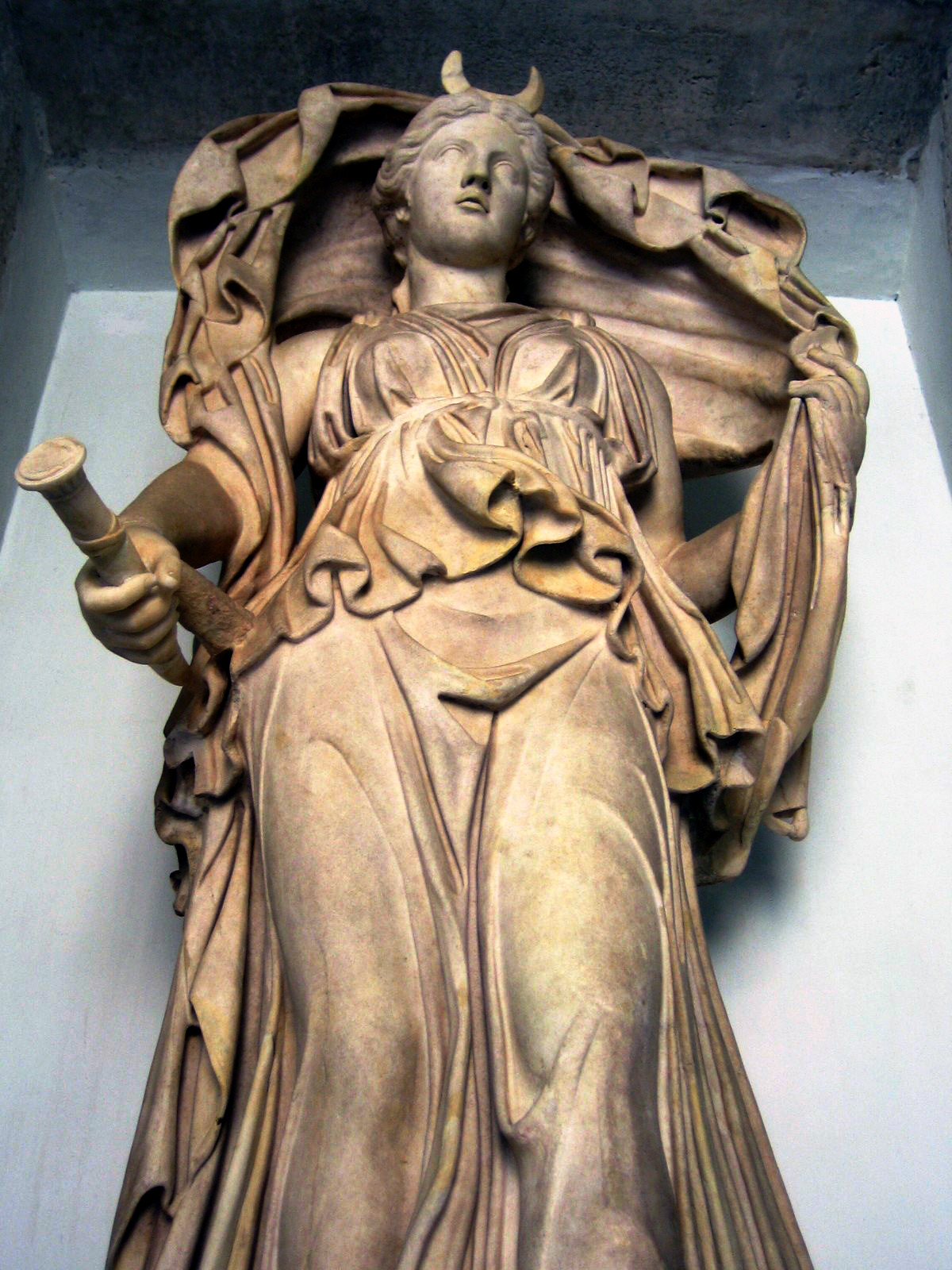 The goddess of the Moon, with her cloak billowing above her head.